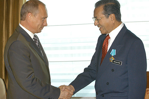 PUTRAJAYA. President Putin conferring the Order of Friendship on Malaysian Prime Minister Mahathir Mohamad.